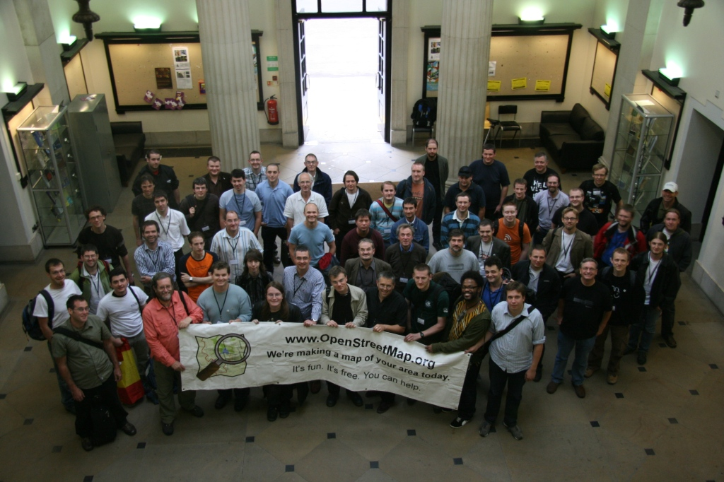 State of the Map 2007 conference participants. Manchester, UK